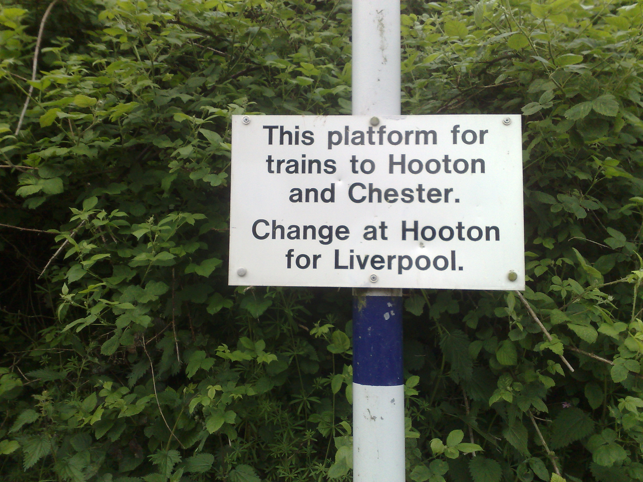 Station Sign at Ince & Elton stating trains go to Hooton